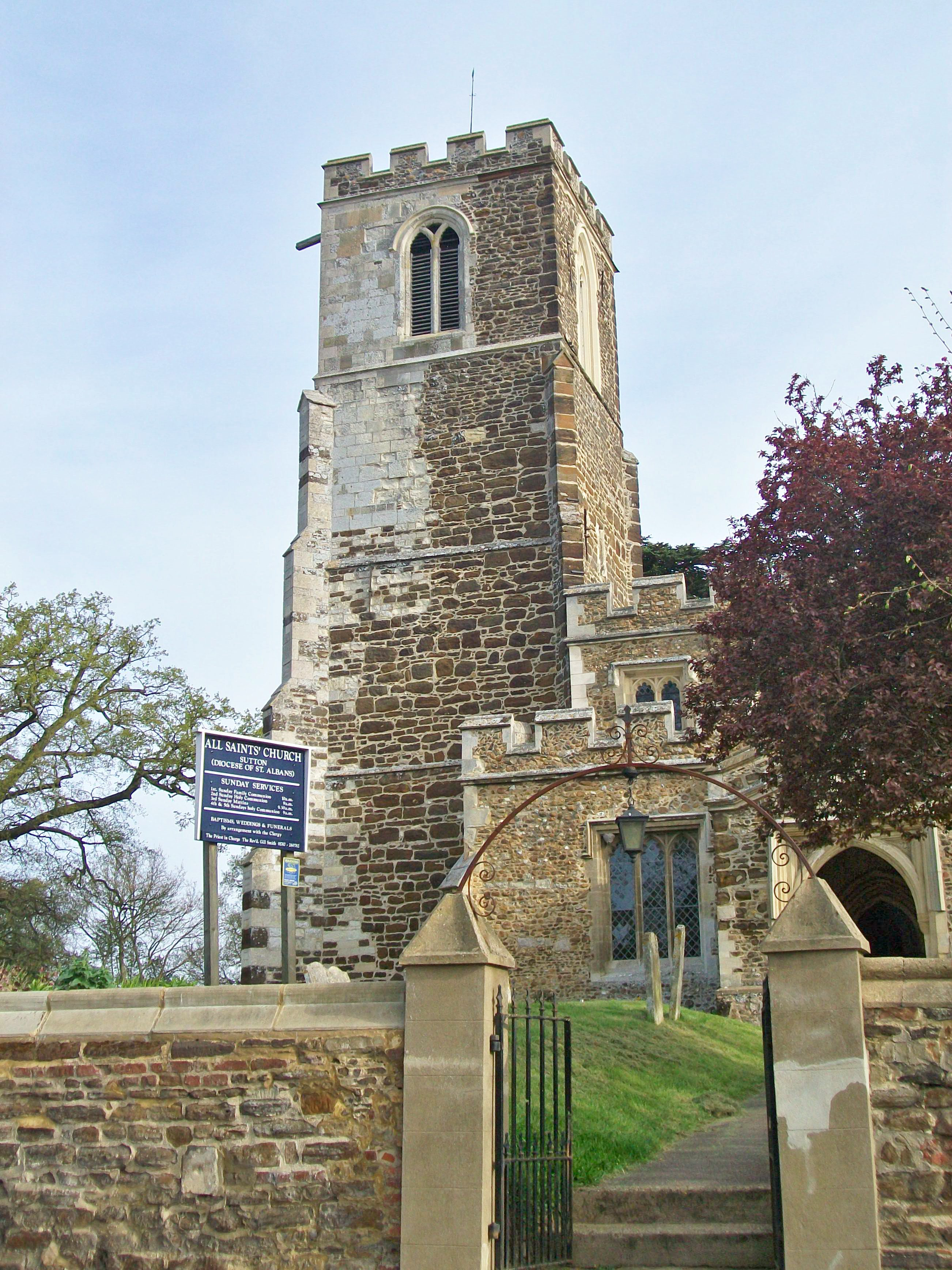 All Saints Church in Sutton, Bedfordshire.